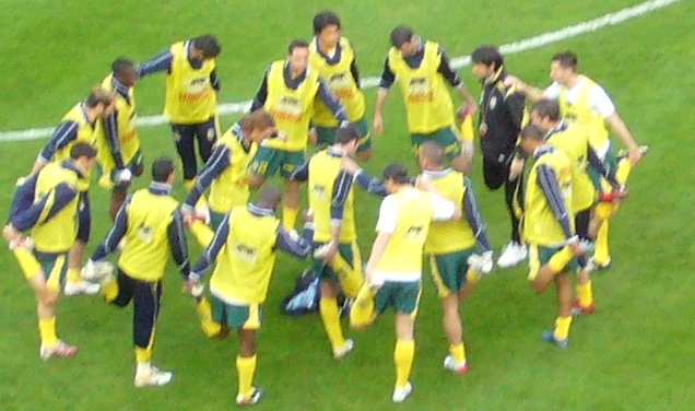 This is the french soccer team FC Nantes during the French national championship game between AS St Etienne and the FC Nantes. I, Sanguinez, the author of that picture, took this shot and resize it using the gimp !